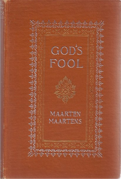 Scan of the front of the American edition of God's Fool by Maarten Maartens, published by D. Appleton and Company, New York, in 1893 (2nd edition). The first edition was published in 1892.